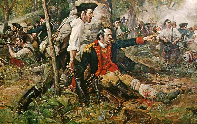 An oil painting titled Herkimer at the Battle of Oriskany. Although wounded, General Nicholas Herkimer rallies the Tryon County militia at the Battle of Oriskany on August 6, 1777.